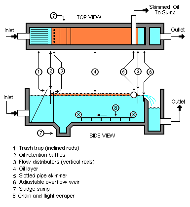 I am the author and drew this diagram of an API separator myself by using Microsoft's Paint program. This is a diagram of an API oil-water separator for treatment of industrial wastewaters. - mbeychok 03:34, 31 July 2007 (UTC)